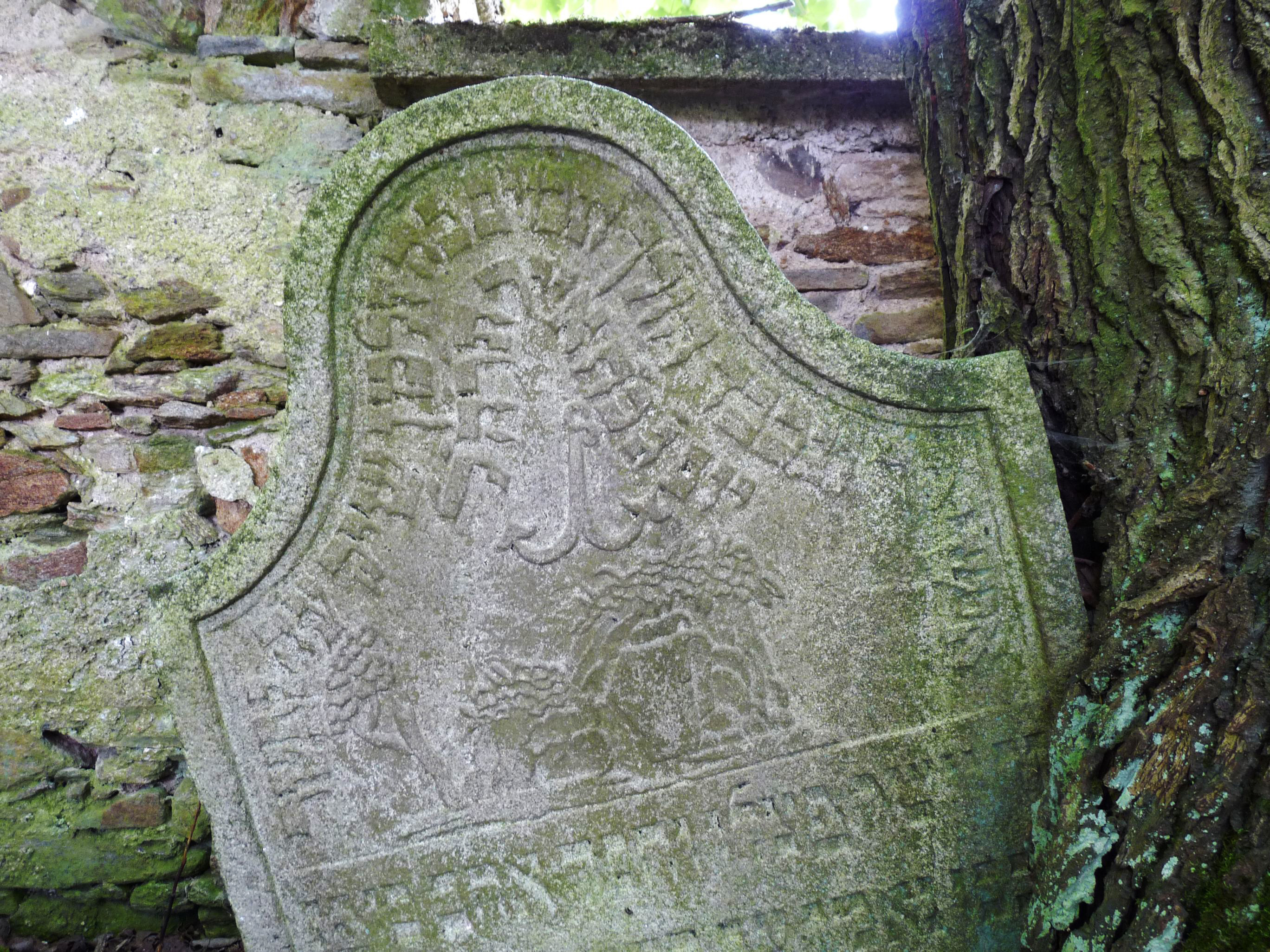 Gravestone in the Jewish cemetery near the village of Babčice, Tábor District, Czech Republic.